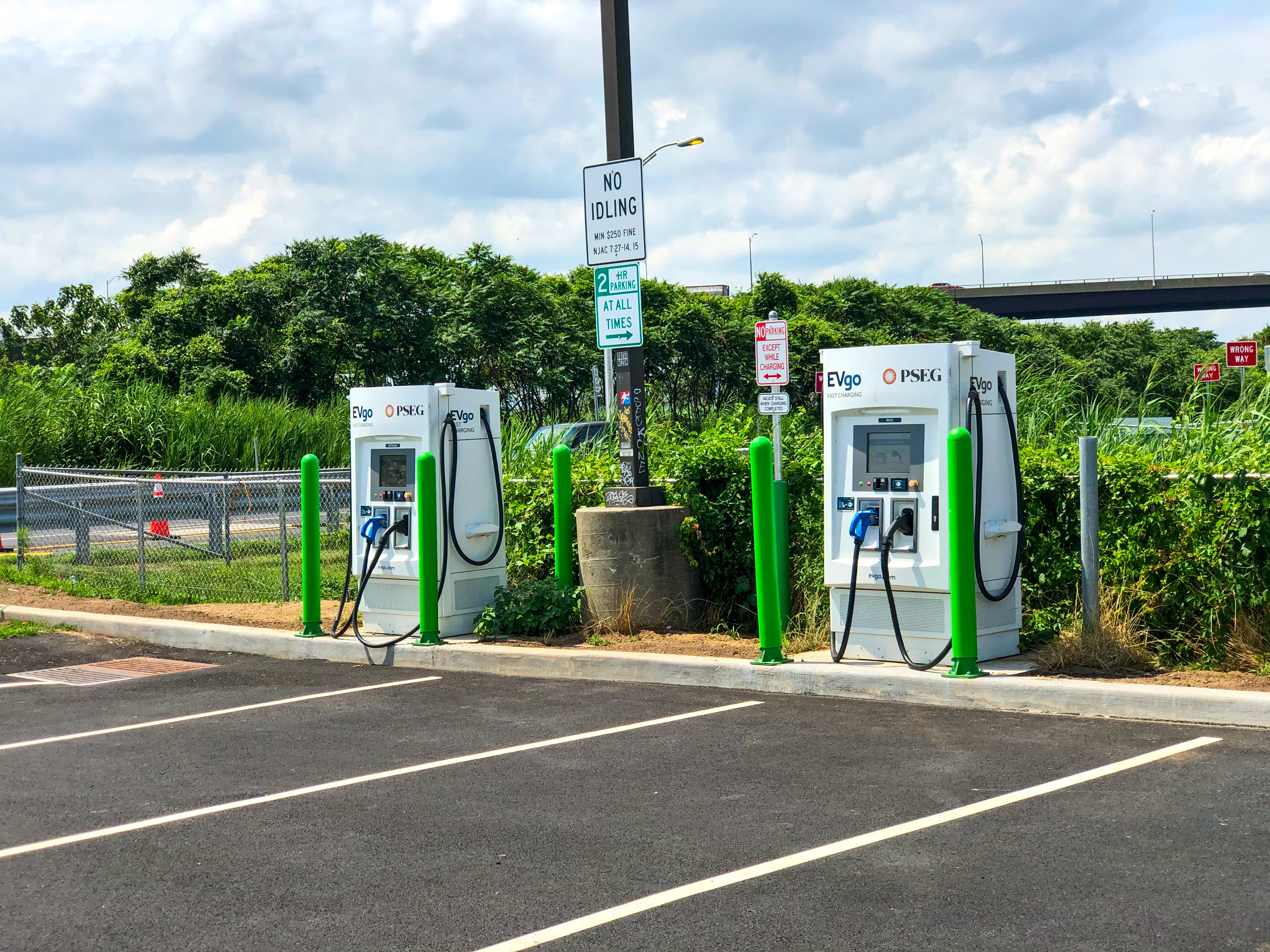 Vincent Lombardi Service Area electric charging station after 2020 renovation